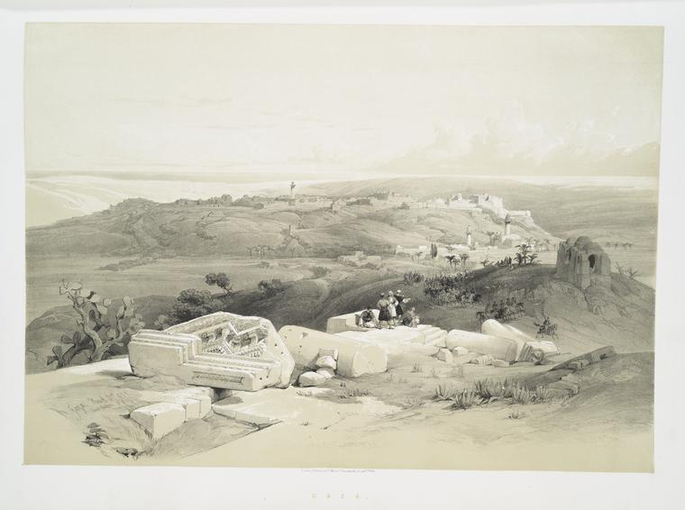 Gaza.